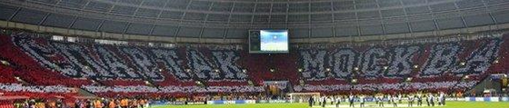 Spartak supporters during a game against Barcelona (02/18/2013).